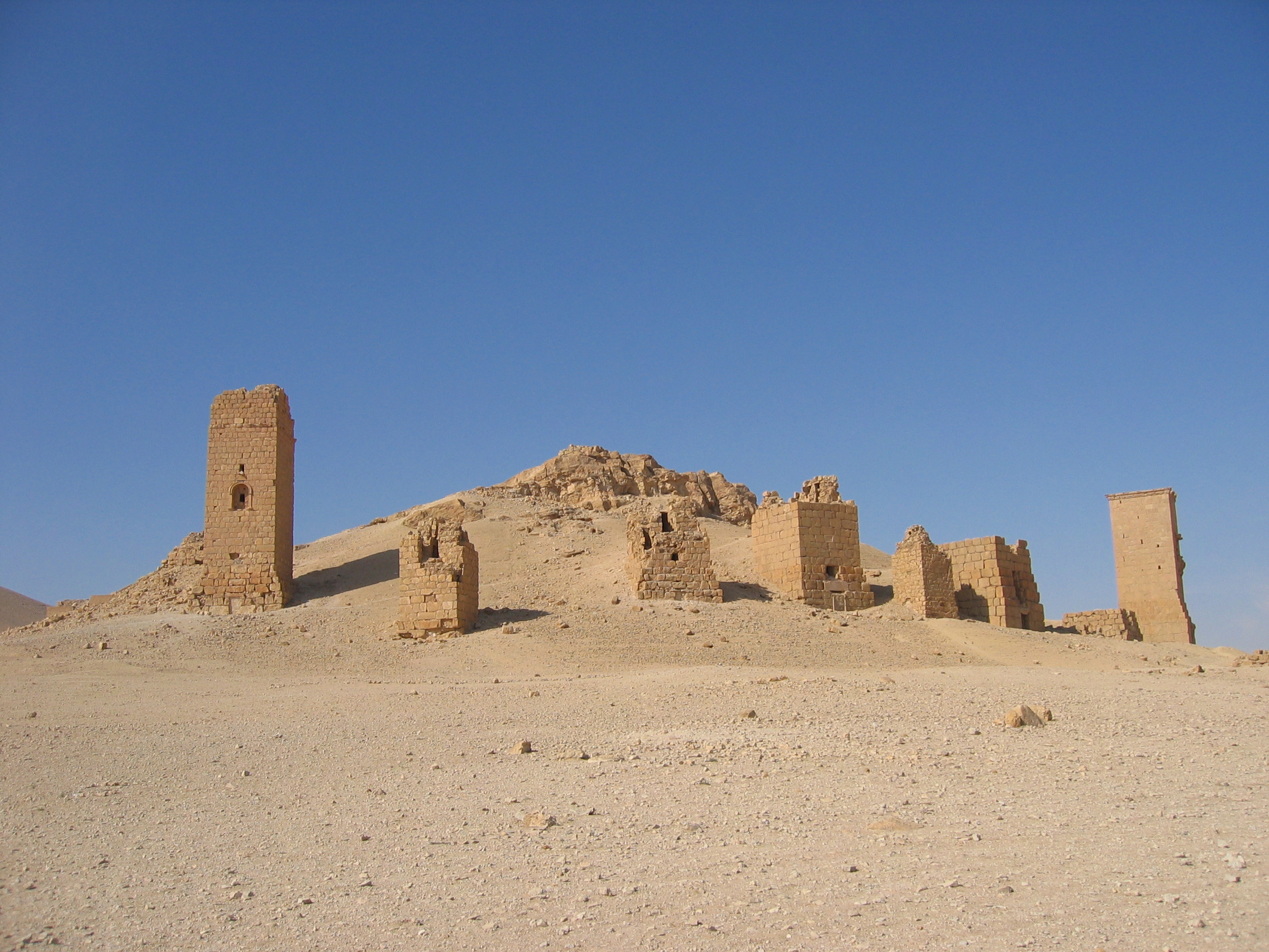 Tomb Towers in the Tomb Valley, Palmyra, Syria Grabtürme im Tal der Gräber, Palmyra, Syrien